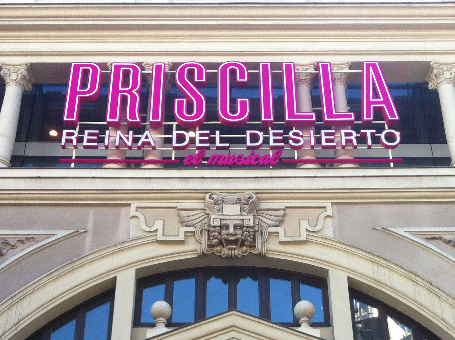 Priscilla at Nuevo Teatro Alcalá in Madrid